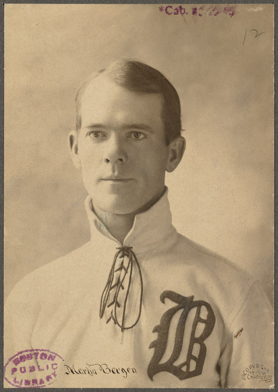 Photo courtesy of the Boston Public Library. Boston Nationals catcher Martin Bergen. Chickering, Elmer (photographer)